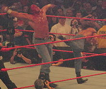 A picture of the Sweet Chin Music